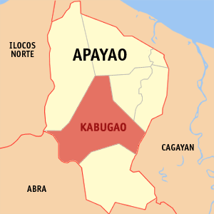 Map of Apayao showing the location of Kabugao